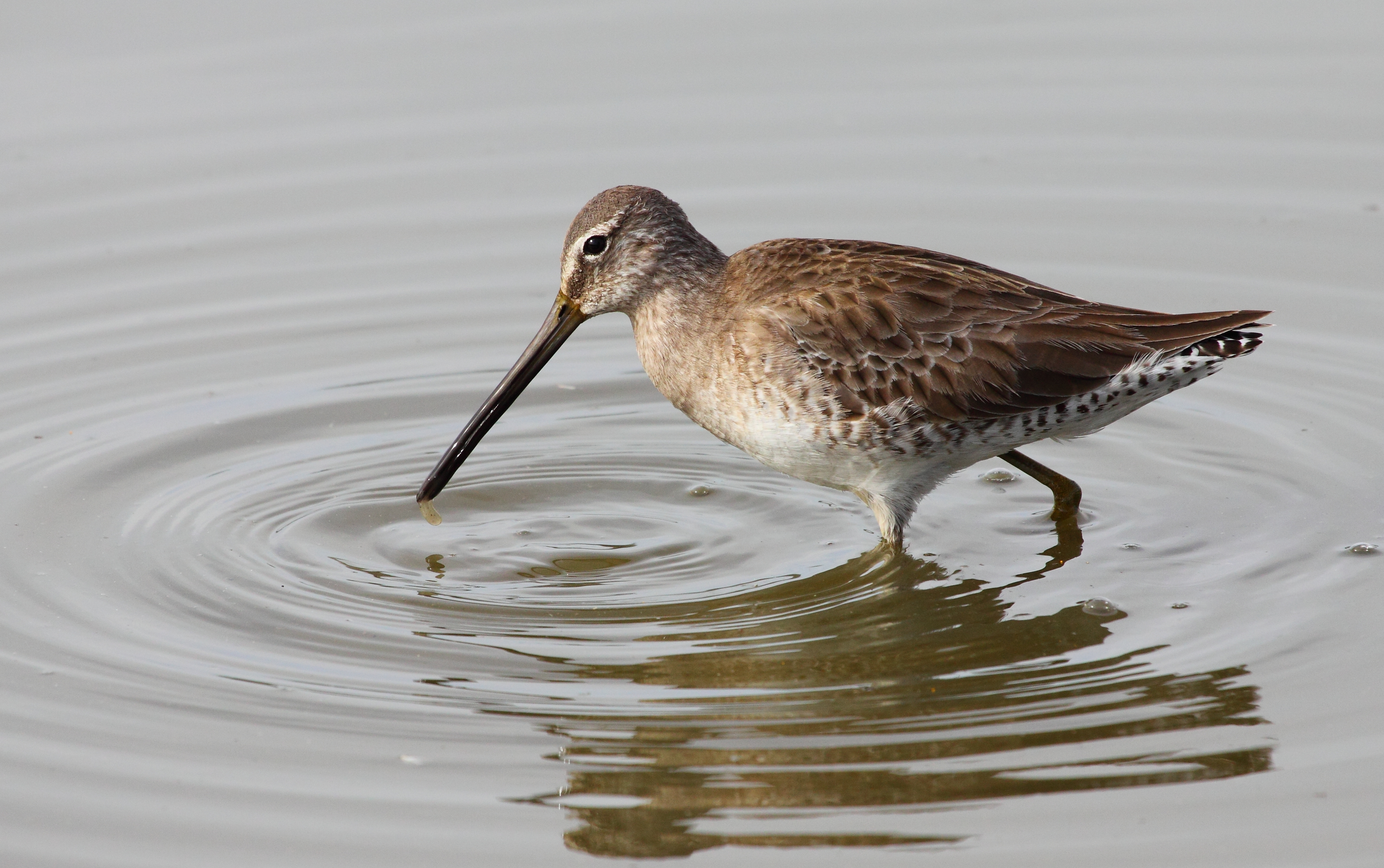 Long-billed Dowitcher Limnodromus scolopaceus lifts its bill above the water for a moment while walking and feeding in a shallow, muddy pond at Irvine, Orange Co., California.